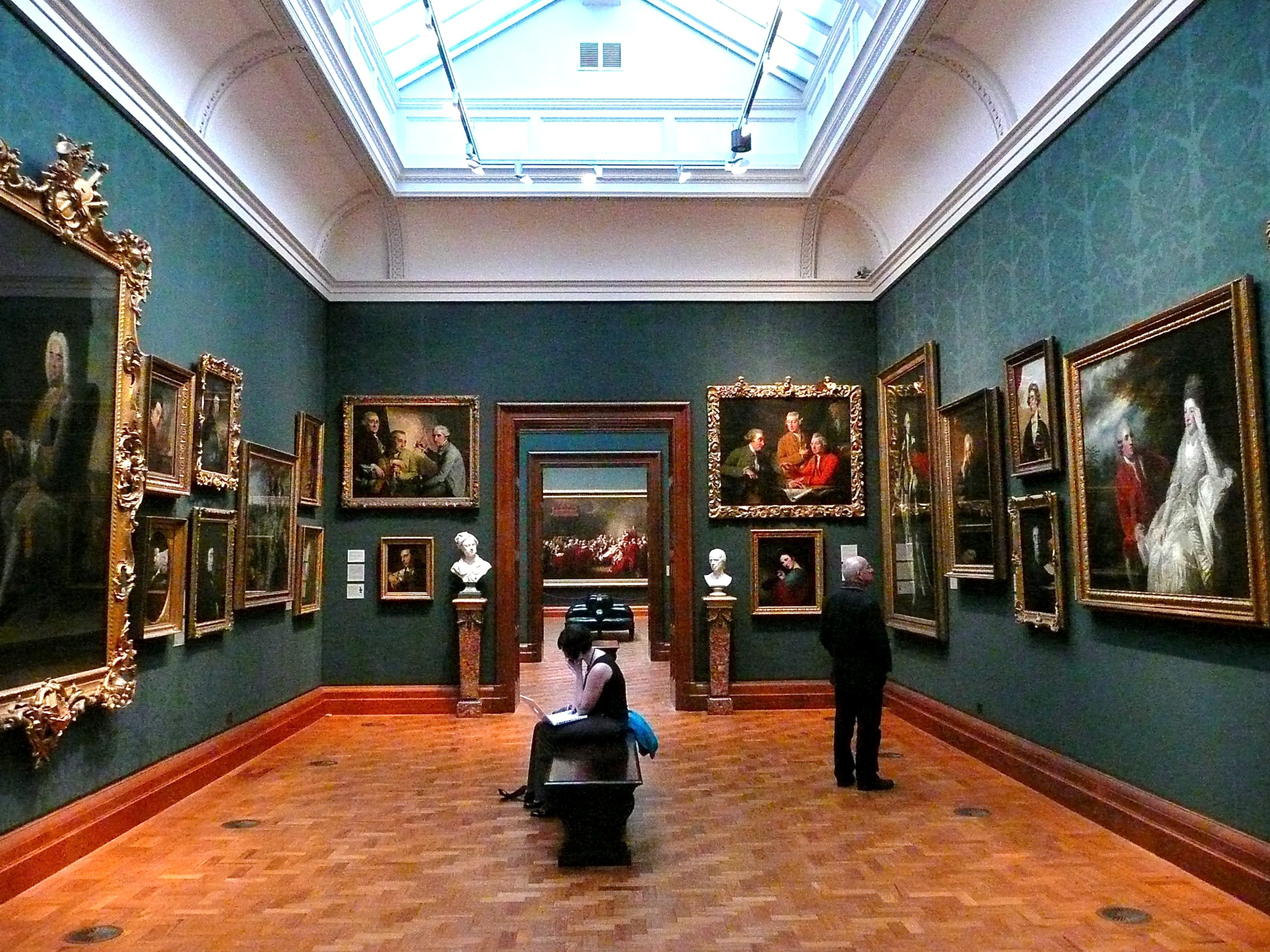 Inside the National Portrait Gallery. Taken on the premises of the National Portrait Gallery, London.